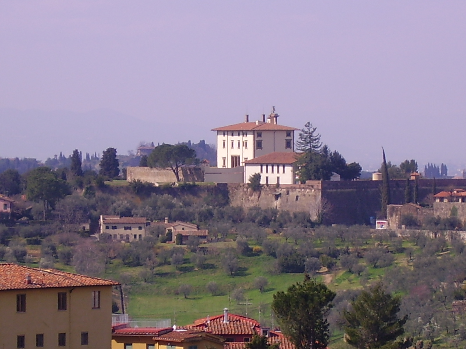 Picture taken by me from S. Miniato hill